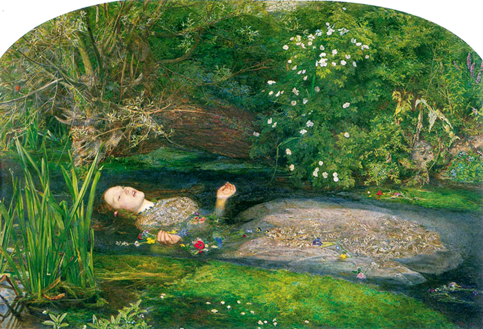 John Everett Millais OPHELIA my elaboration with Adobe Photoshop